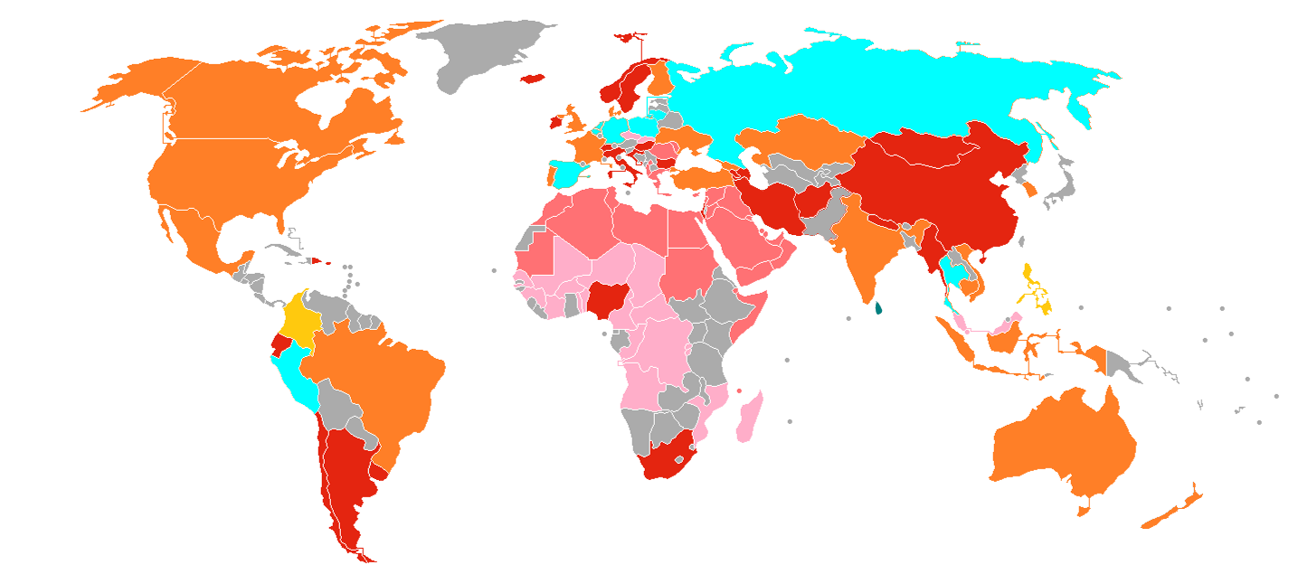 Map showing countries with The Voice, based on Image:BlankMap-World-v5.png, which is licensed under GFDL. Location of The Voice versions